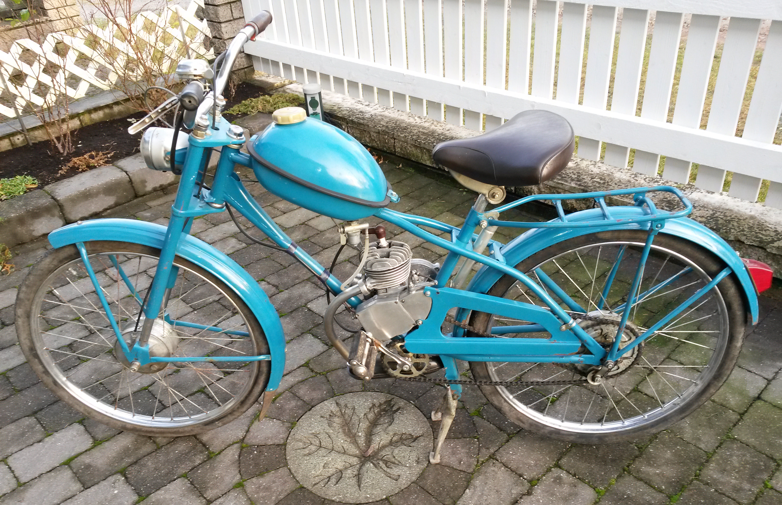 USSR moped Riga-7